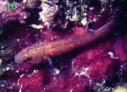 Picture of Corcyrogobius liechtensteini